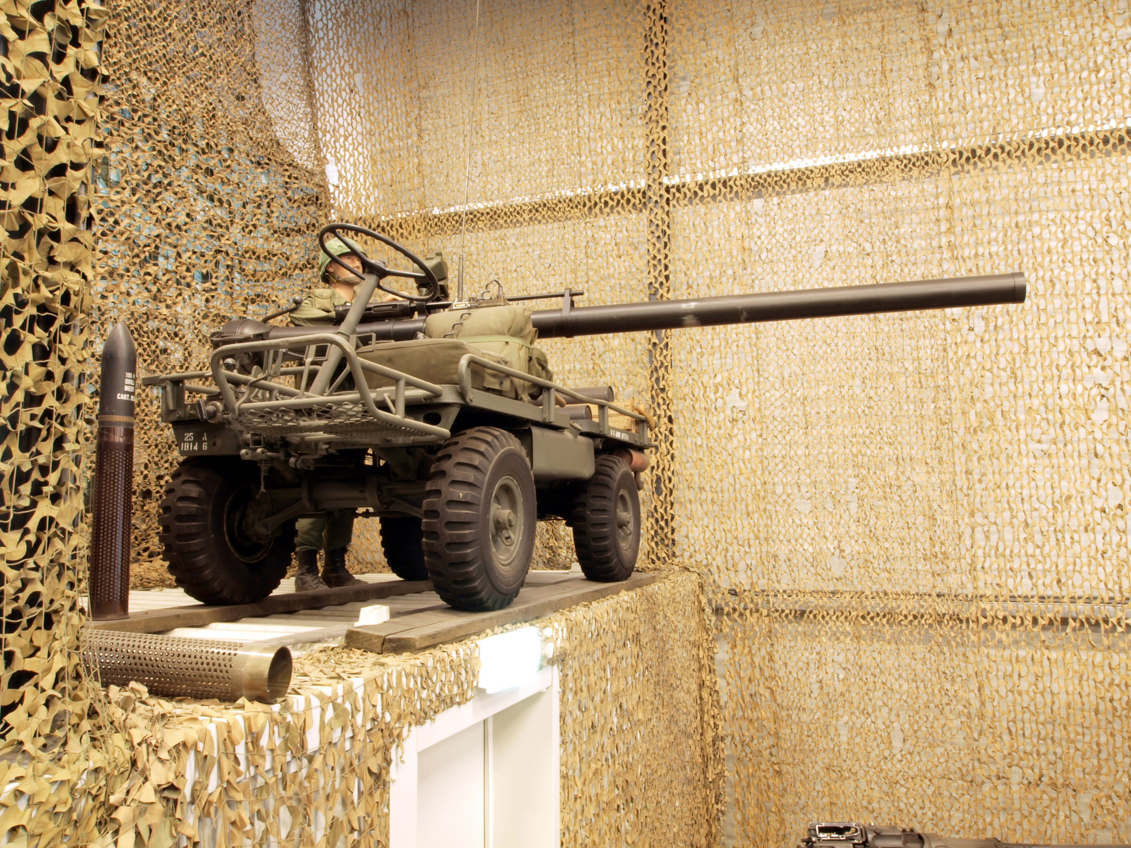 Photographed at the Marshallmuseum - Liberty Park - Oorlogsmuseum Overloon, The Netherlands. OLYMPUS DIGITAL CAMERA